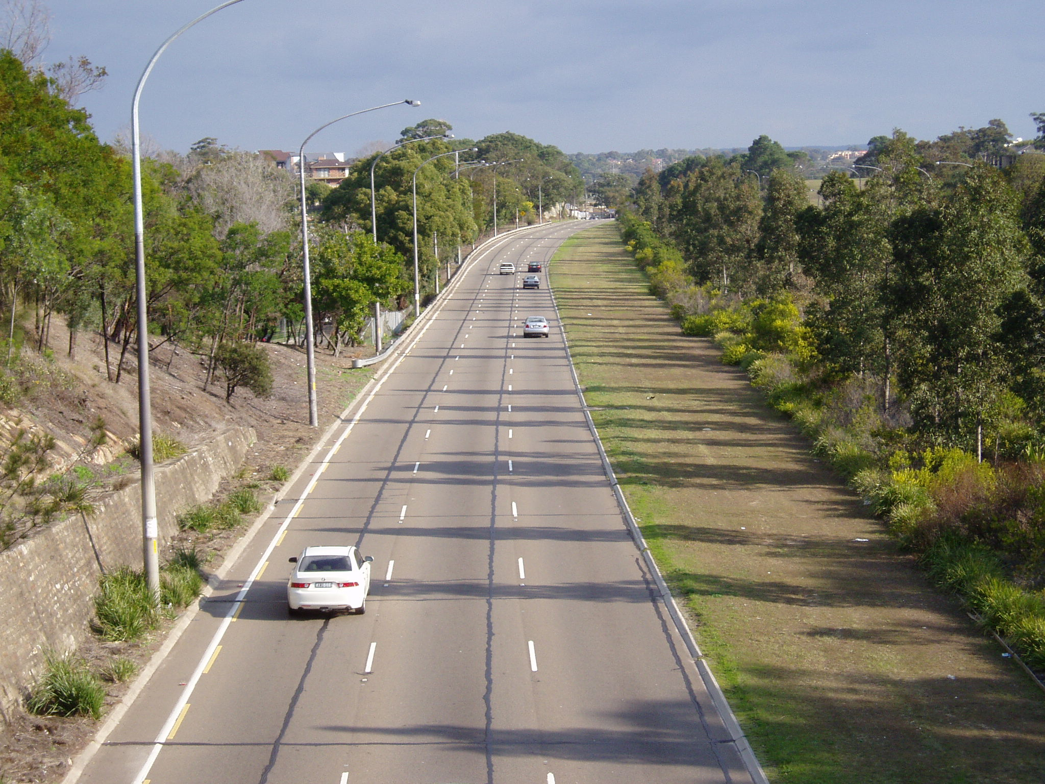 Taren Point Road from the Holt Road overpass in Sydney, New South Wales, Australia. I took this photo on Sunday 6 August 2006.